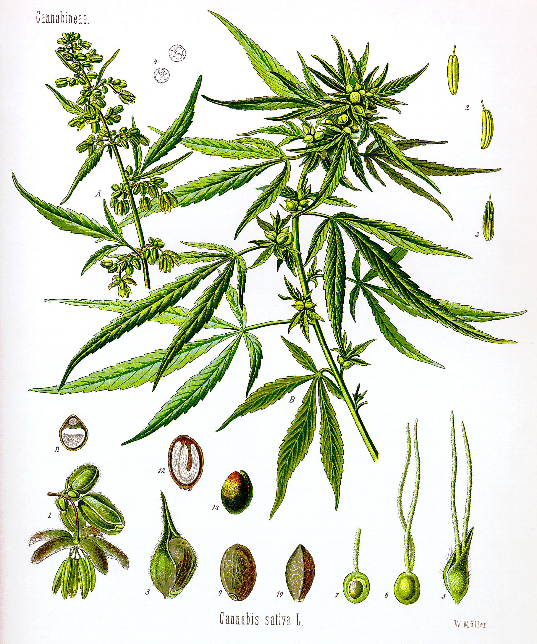 Hemp plant. A flowering male and B seed-bearing female plant, actual size; 1 male flower, enlarged detail; 2 and 3 pollen sac of same from various angles; 4 pollen grain of same; 5 female flower with cover petal; 6 female flower, cover petal removed; 7 female fruit cluster, longitudinal section; 8 fruit with cover petal; 9 same without cover petal; 10 same; 11 same in cross-section; 12 same in longitudinal section; 13 seed without hull.